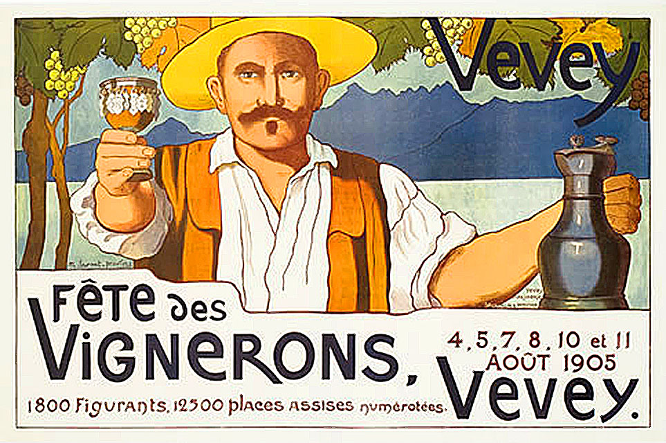 Feast of vinegrowers of Vevey